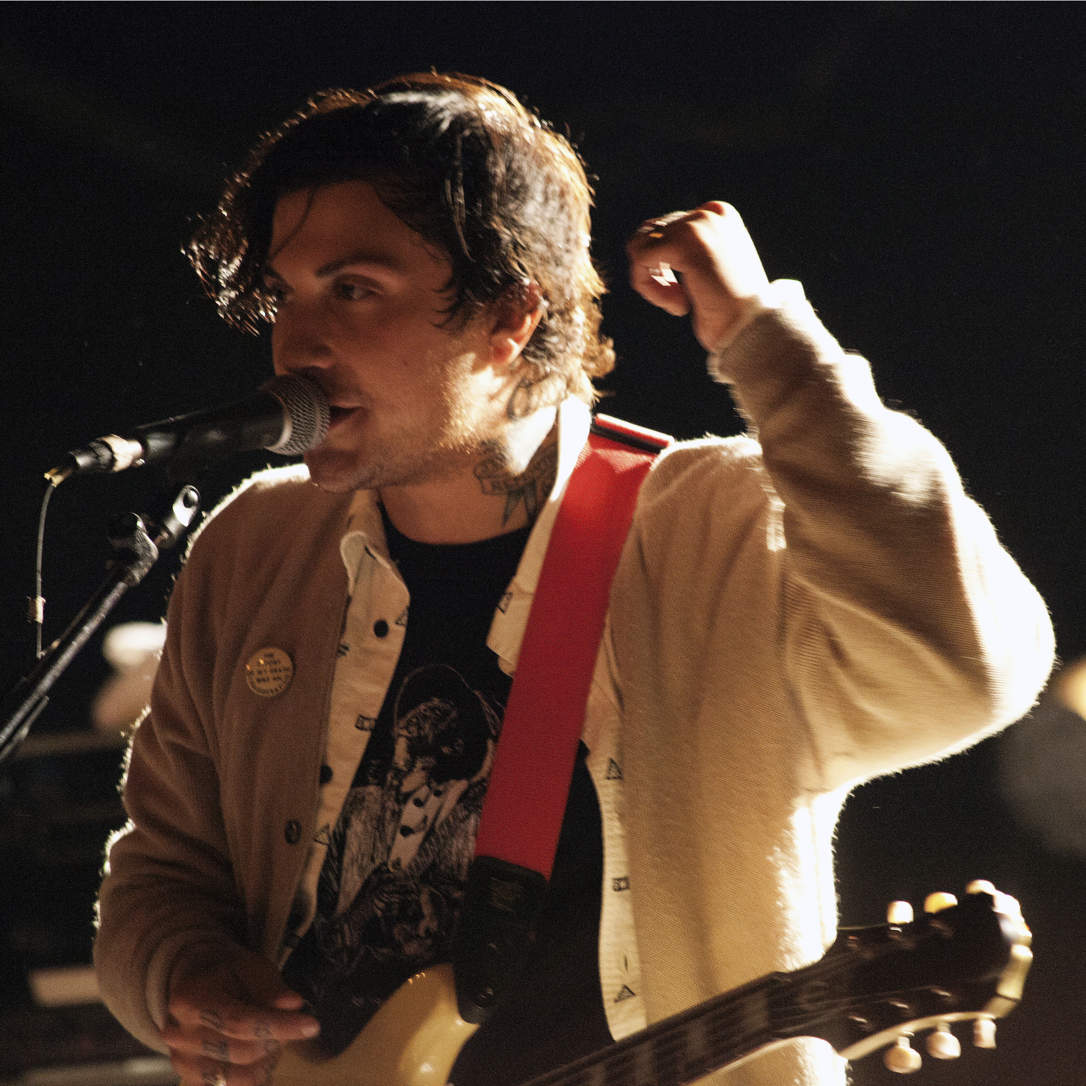 Frank Iero (FRNKIERO ANDTHE CELLABRATION) opening for Taking Back Sunday and The Used on 09/26/2014 at the Roseland Theater in Portland, Oregon